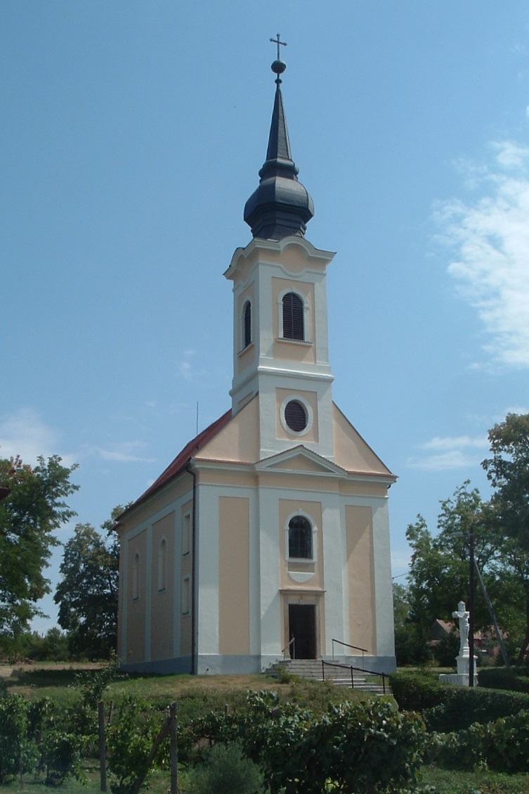 The Roman Catholic Church in Egyházasrádóc